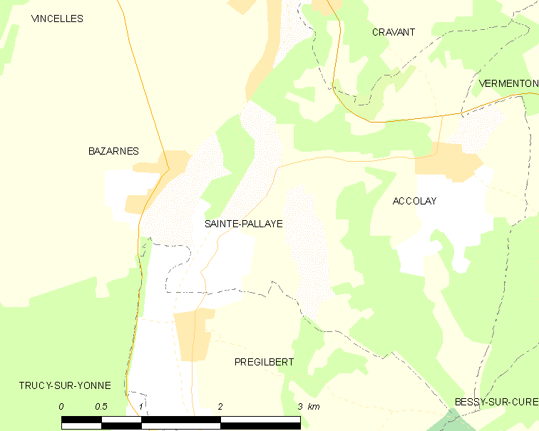 Map of French municipality Sainte-Pallaye